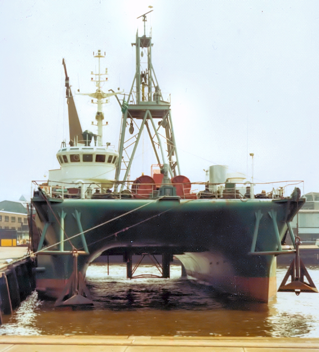 MV Duplus moored in the port of Rotterdam, circa 1973